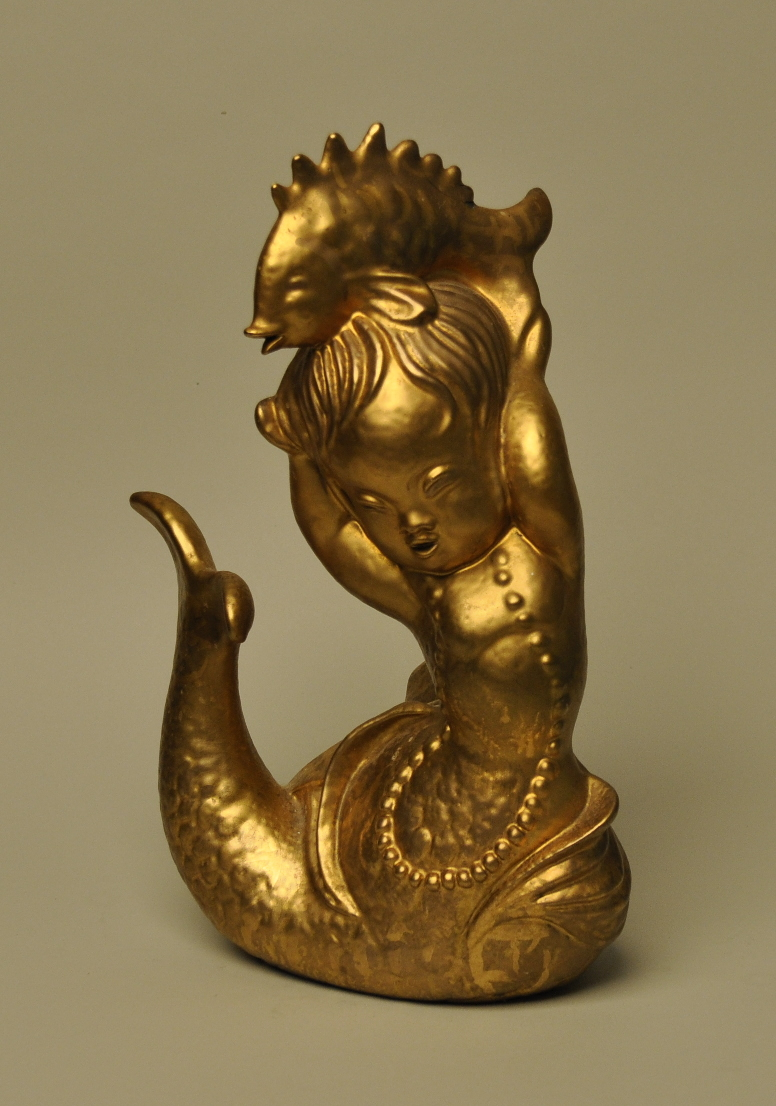 Sascha Brastoff mermaid figurine